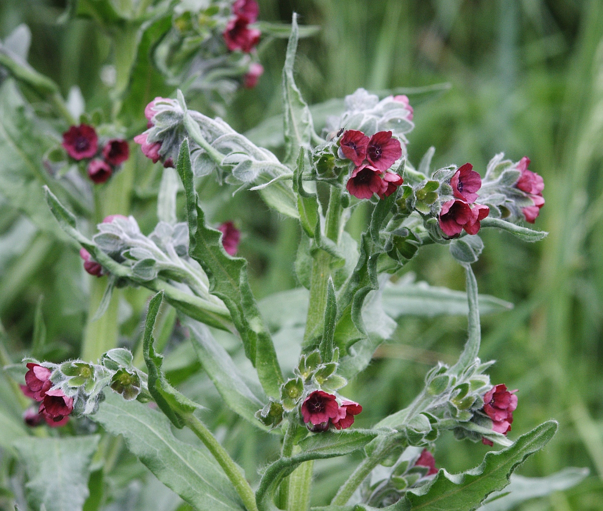 Cynoglossum officinale, Virngrund, Germany